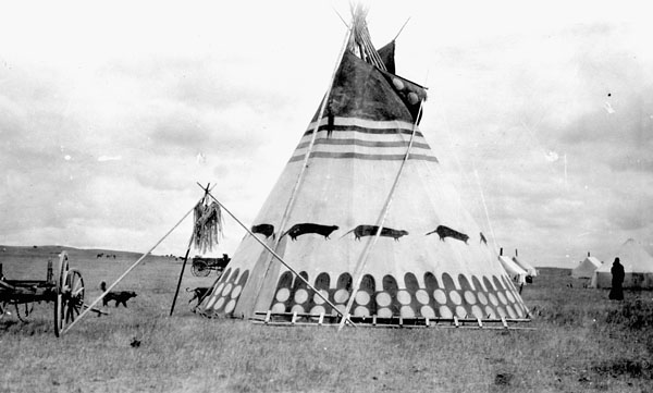 Blackfoot teepee